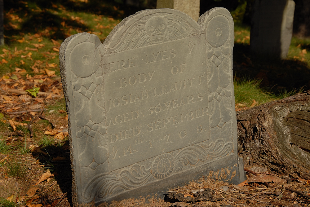 Gravestone of Josiah Leavitt, (1653–1708), son of Deacon John Leavitt, and grandfather of Josiah Leavitt, American manufacturer of pipe organs